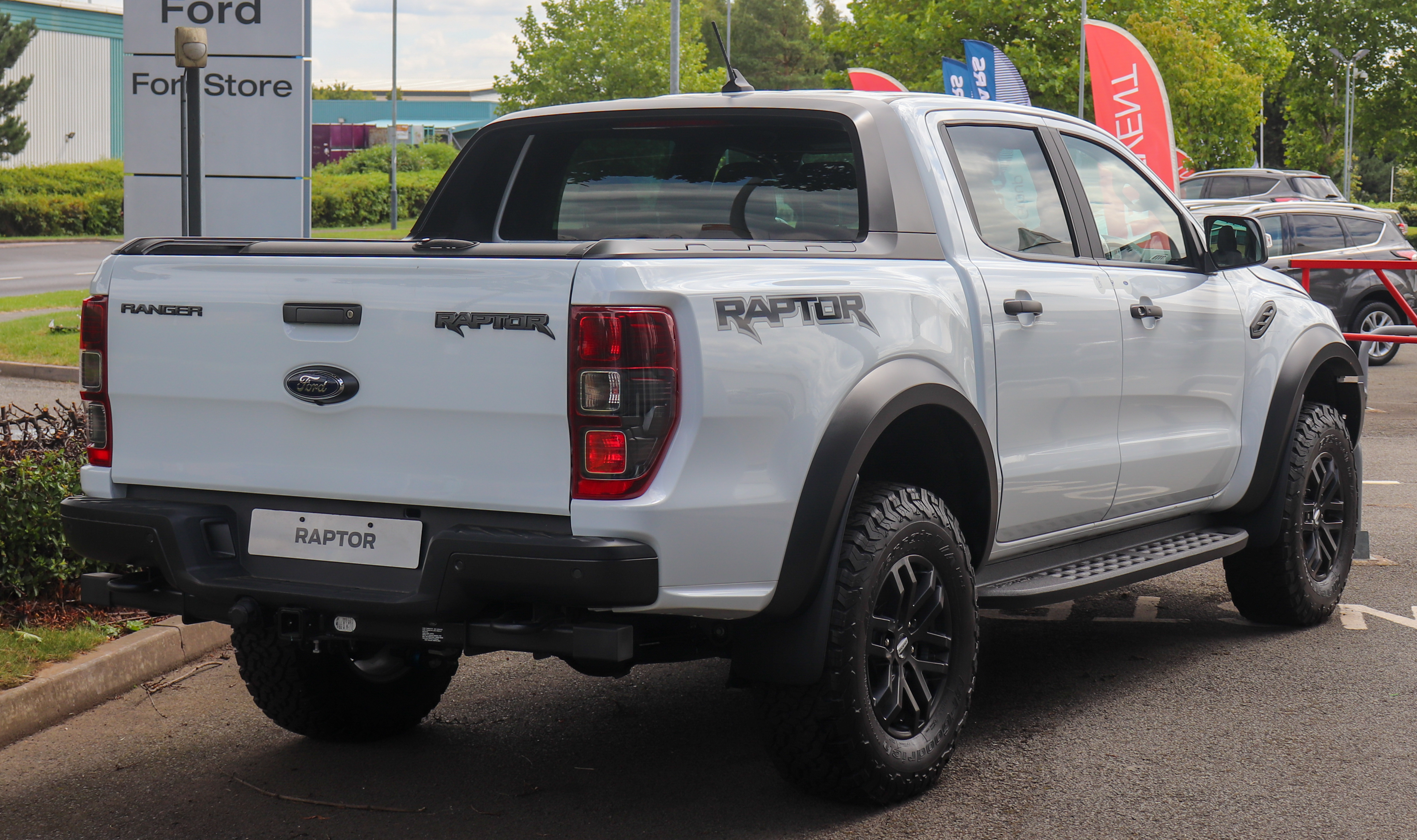 2020 Ford Ranger Raptor Rear Taken in Leamington Spa